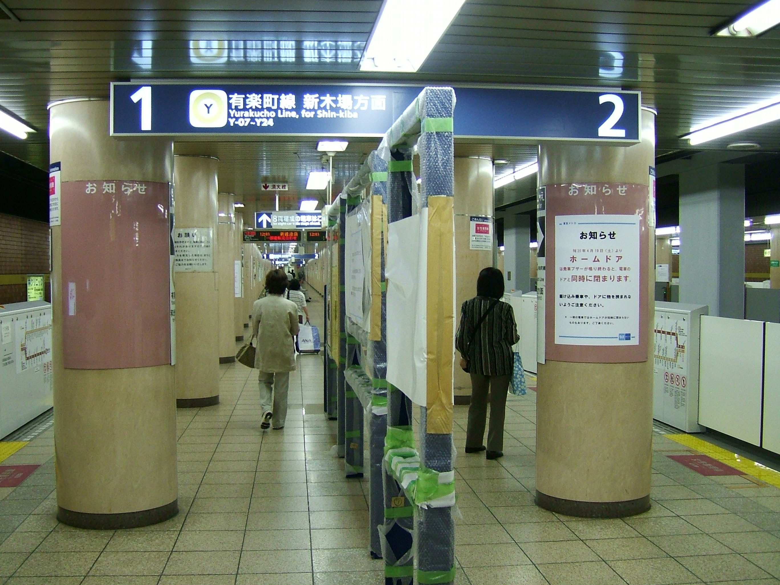 Kotake-mukaihara Station no.1 and 2 platform (Tokyo Metro Yūrakuchō Line, Fukutoshin Line, Seibu Yūrakuchō Line)